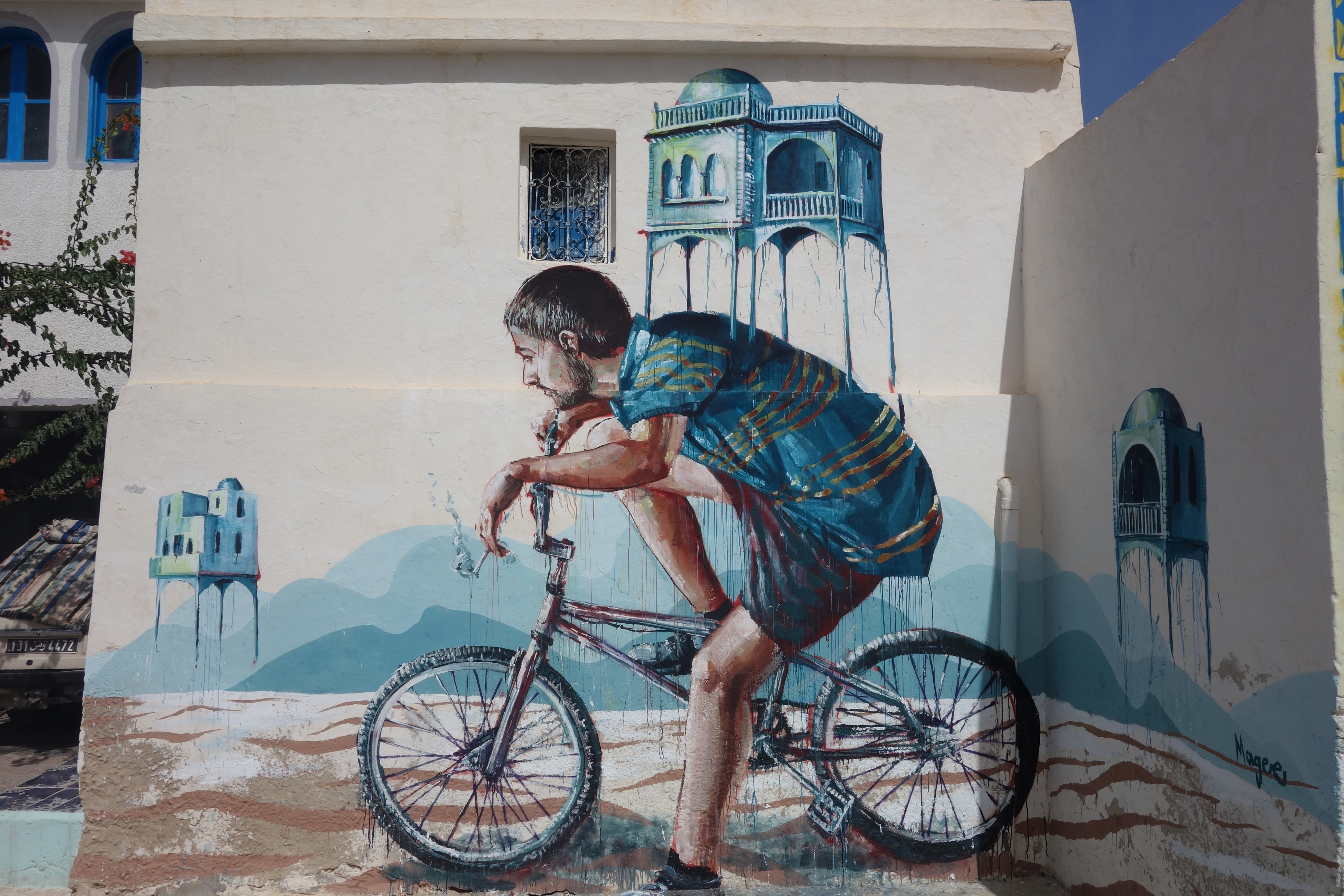 Djerba Er Riadh Street Art